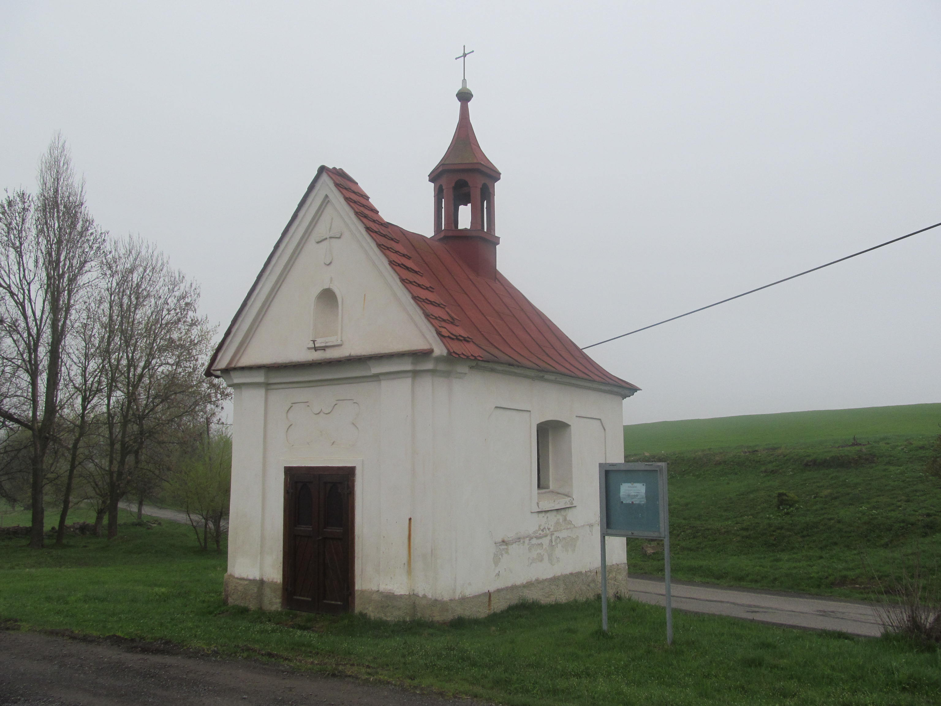 Chapel in Štoutov, Czech Republic